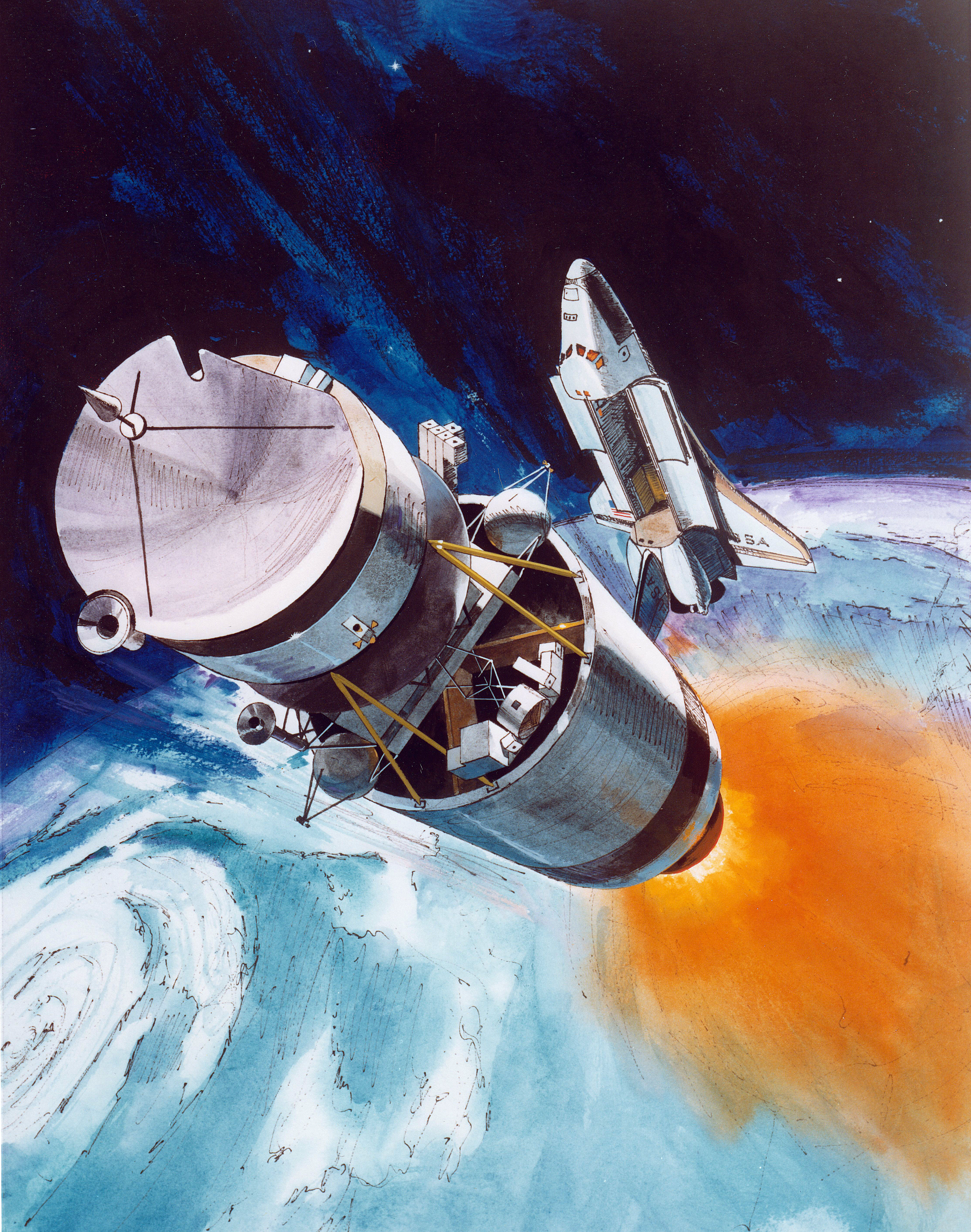 Original description: NATIONAL AERONAUTICS AND SPACE ADMINISTRATION FOR RELEASE: May 16, 1978 No. 78-H-237, 78-HC-189 SUNWARD BOUND - Two proposed solar polar spacecraft, nested atop the Space Shuttle's Solid Spinning Upper Stage, begin a voyage to the Sun's polar regions by way of Jupiter. The spacecraft, one designed and built by NASA, the second by the European Space Agency, would be launched in 1983. Jet Propulsion Laboratory would have management responsibility for the U.S. spacecraft and would be control center for the mission.